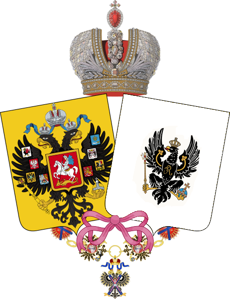 The Lesser coat of arms of Her Imperial Majesty The Empress Alexandra Feodorovna (Charlotte of Prussia) (13 July 1798 – 1 November 1860), wife of Nicholas I of Russia.